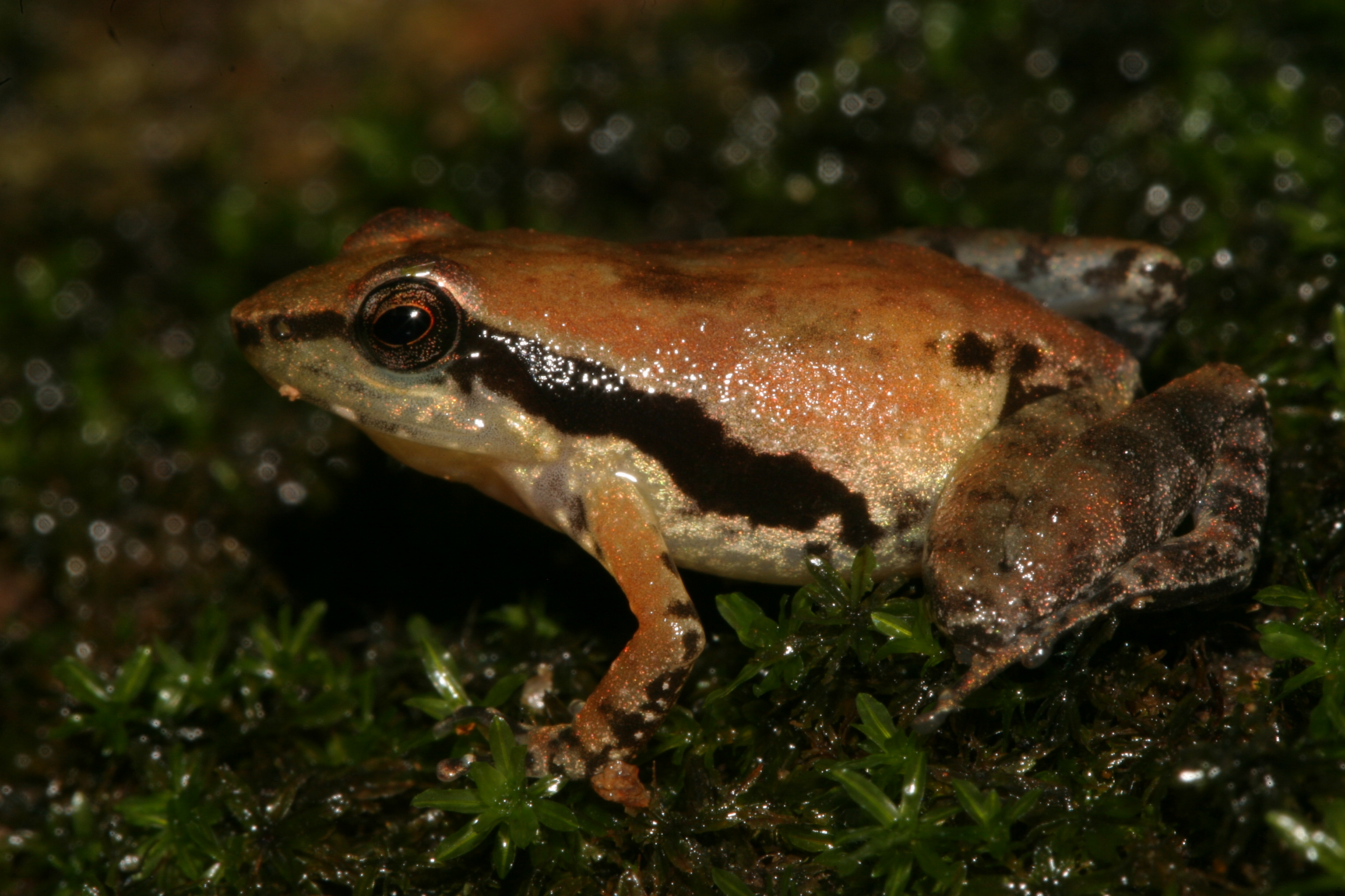 Frog from India